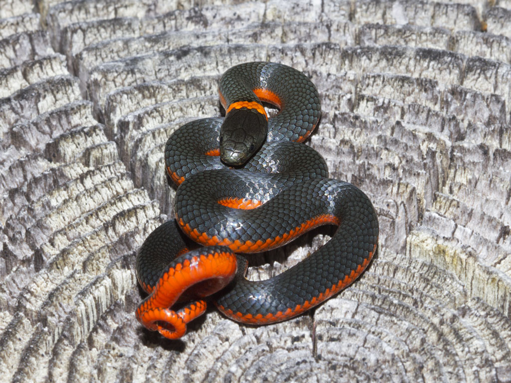 A Northwestern Ring-necked Snake (Diadophis punctatus occidentalis) in Mendocino County, California